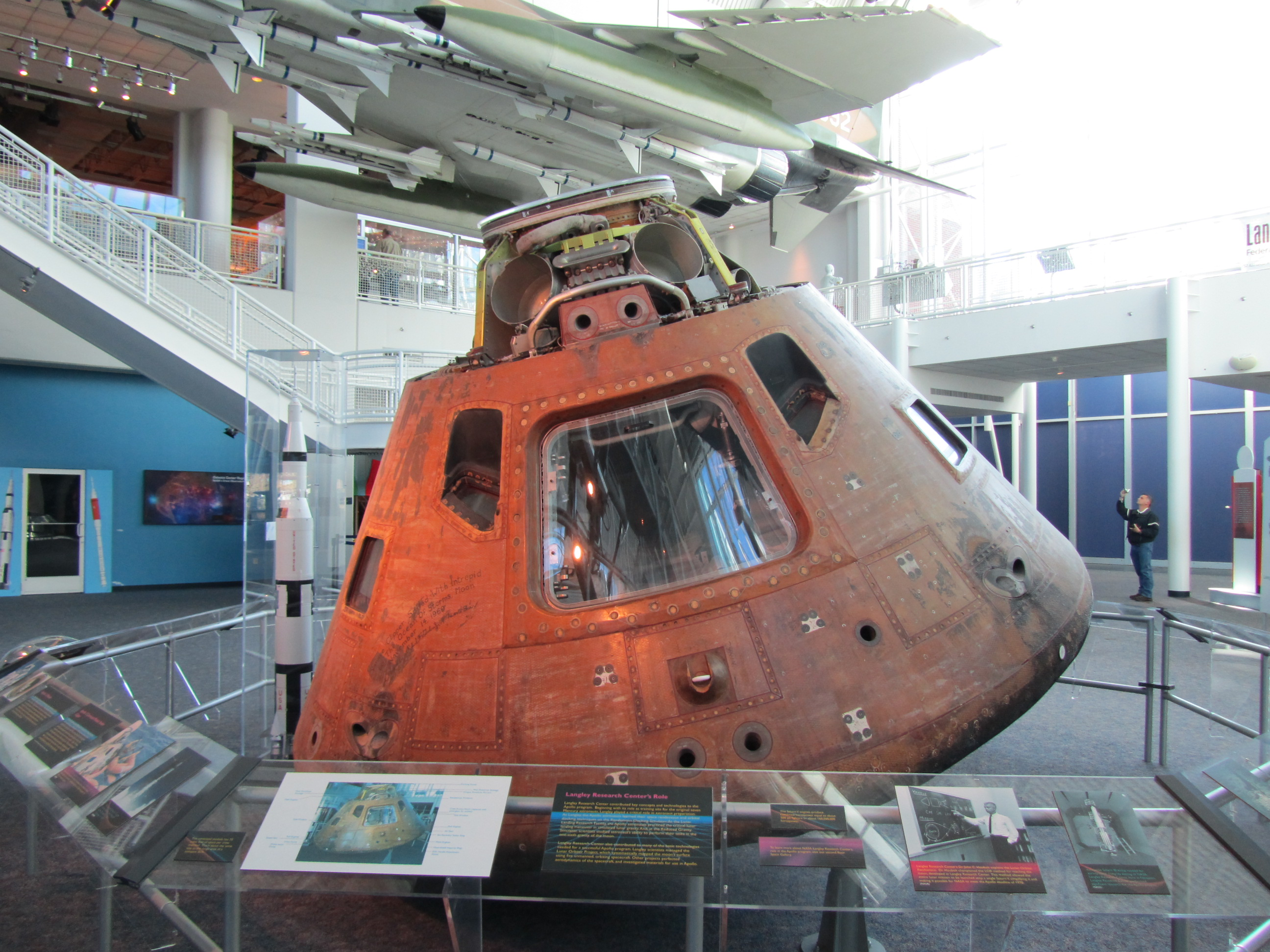 Apollo 12 Command Module in Virginia Air & Space Center, Hampton, VA